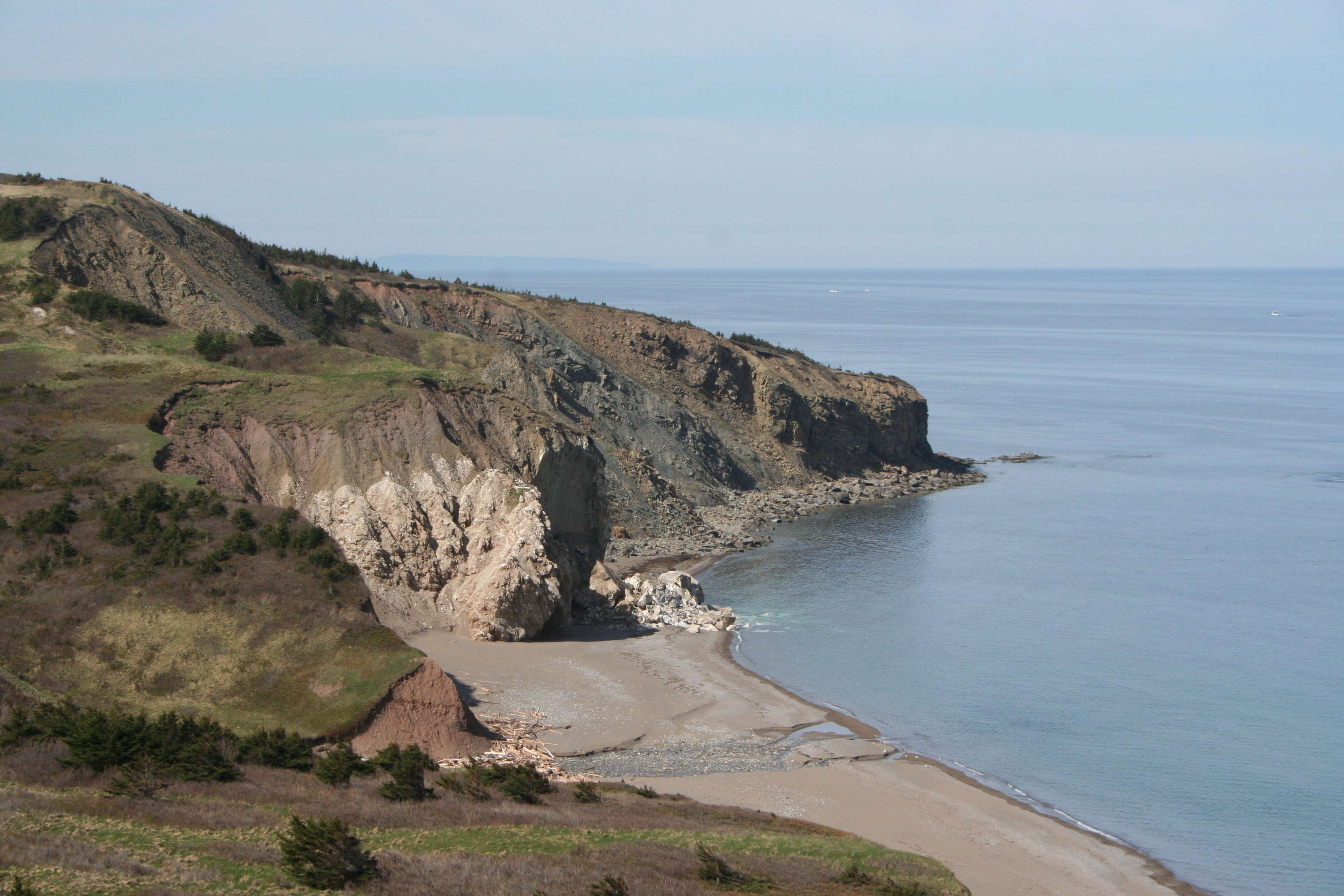 Gypsum and anhydrite cap atop the Coal Mine Point salt diapir near Mabou Mines, Nova Scotia. The diapir is sourced in the Windsor Group (Mississippian) and deforms the overlying coal-bearing strata of the Inverness Formation (Pennsylvanian).